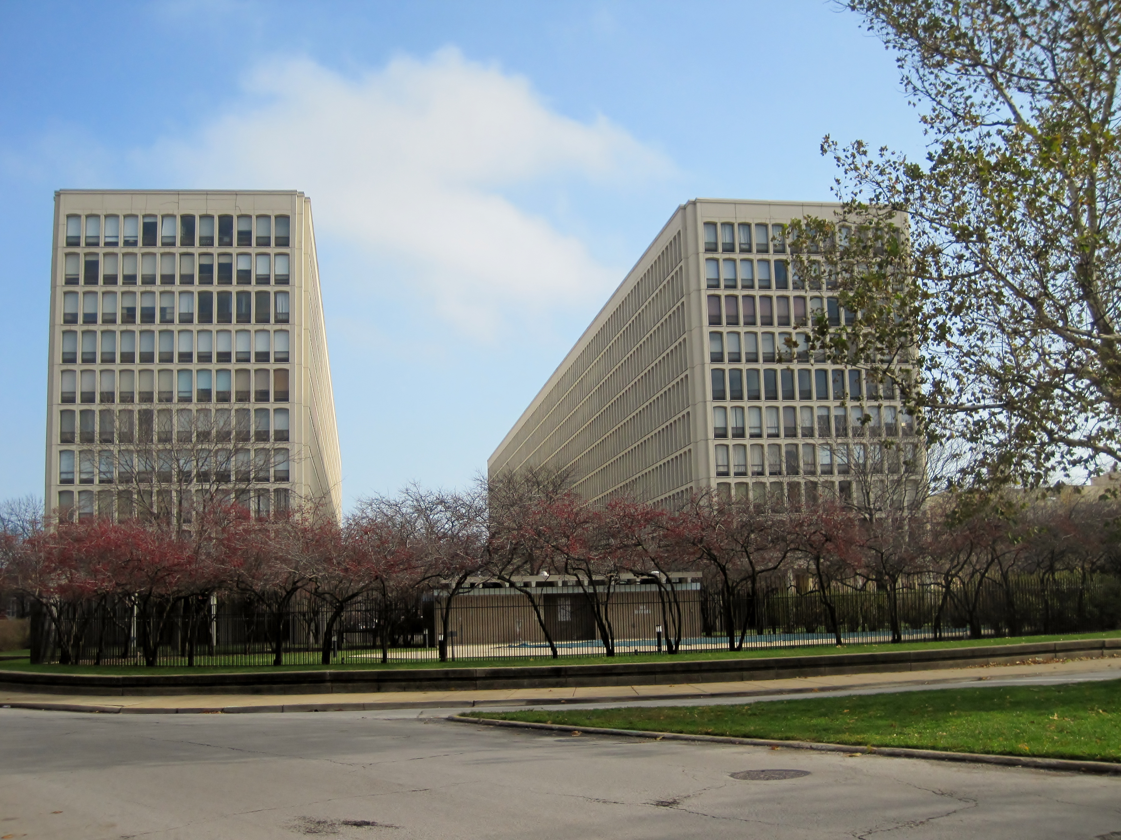 University Apartments in Chicago (1961). They were designed by Araldo Cossutta and I. M. Pei in 1961. In the late 1950s, Hyde Park began a socioeconomic decline. It was rumored that the University of Chicago intended to seek a new home. In response, the city stepped in and demolished a row of taverns to make way for a new work by a renowned architect. To this day, the University of Chicago is famous for its lack of drinking establishments.